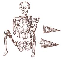 The Skeleton in Armor, discovered in Fall River Massachusetts in 1832